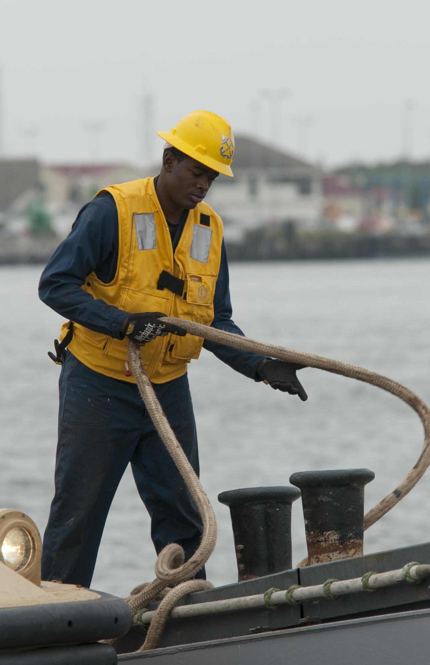 RADIO ISLAND, N.C. (Oct. 27, 2009) Boatswain's Mate Seaman Franz Gayle, assigned to Landing Craft Utility (LCU) 1645, throws a mooring line around a bit to secure his boat at Camp Lejeune, N.C. LCU-1645 is embarking Marines from the 24th Marine Expeditionary Unit (24th MEU) for transport to the amphibious assault ship USS Nassau (LHA 4). LCU-1645, assigned to Assault Craft Unit 4 (ACU 4), and the 24th MEU are embarking aboard Nassau for a Composite Unit Training Exercise (COMPTUEX). COMPTUEX is a routine training exercise conducted by U.S. 2nd Fleet off the East Coast from Virginia to Florida. (U.S. Navy photo by Mass Communication Specialist 1st Class James R. Stilipec/Released)